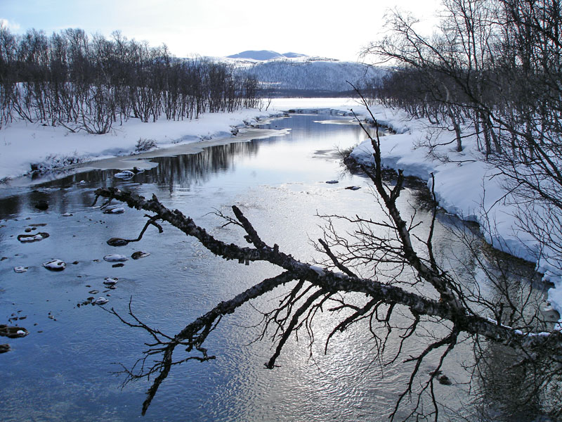 River Vojmån downstream lake Aujojaure (Avasjön), which can be seen in the background.